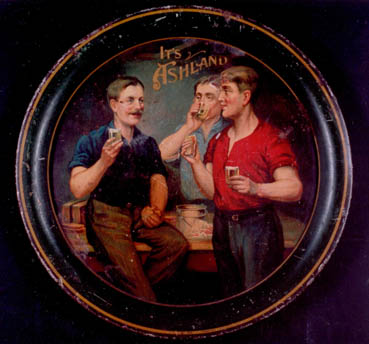 An antique metal serving tray, advertising the Ashland Brewing Company.